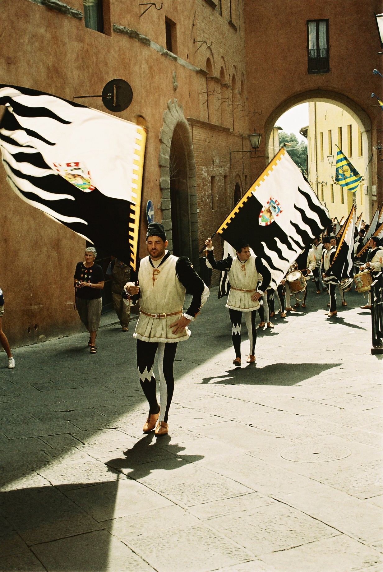 A parade in Siena, Italy